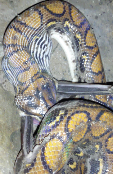 A Rainbow Boa (Epicrates cenchria) feeding on a Common Vampire Bat (Desmodus rotundus) in a cave in Napo province, Ecuador.